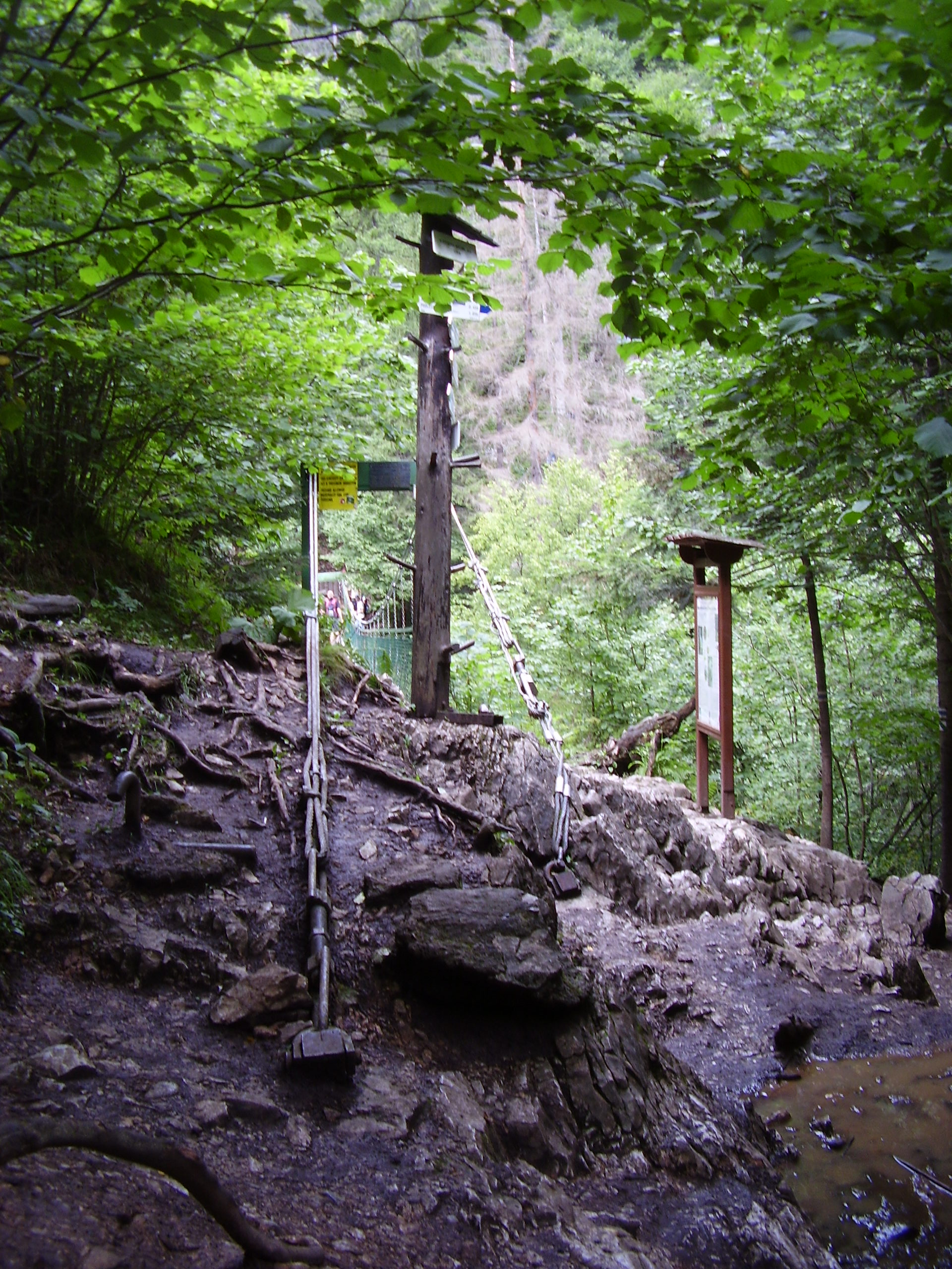 Mouth of Kláštorská roklina into Prielom Hornádu